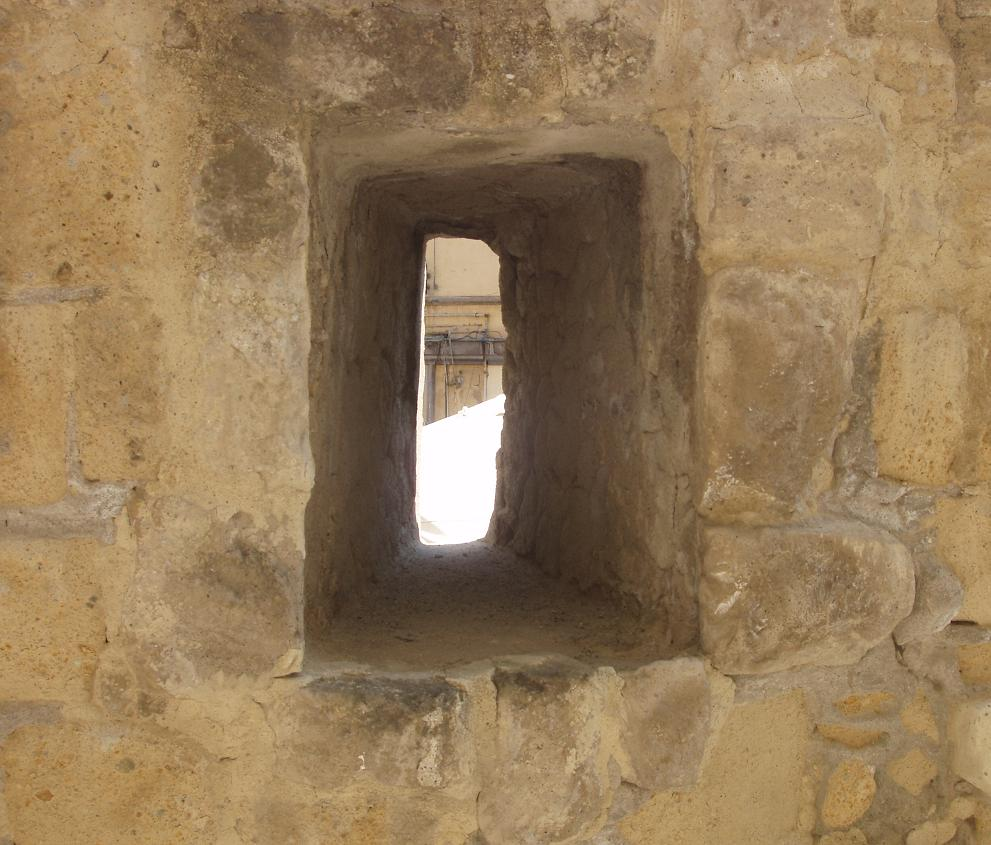 Arrow slit in_Castel dell'Ovo, Napoli. Picture taken by David Shay